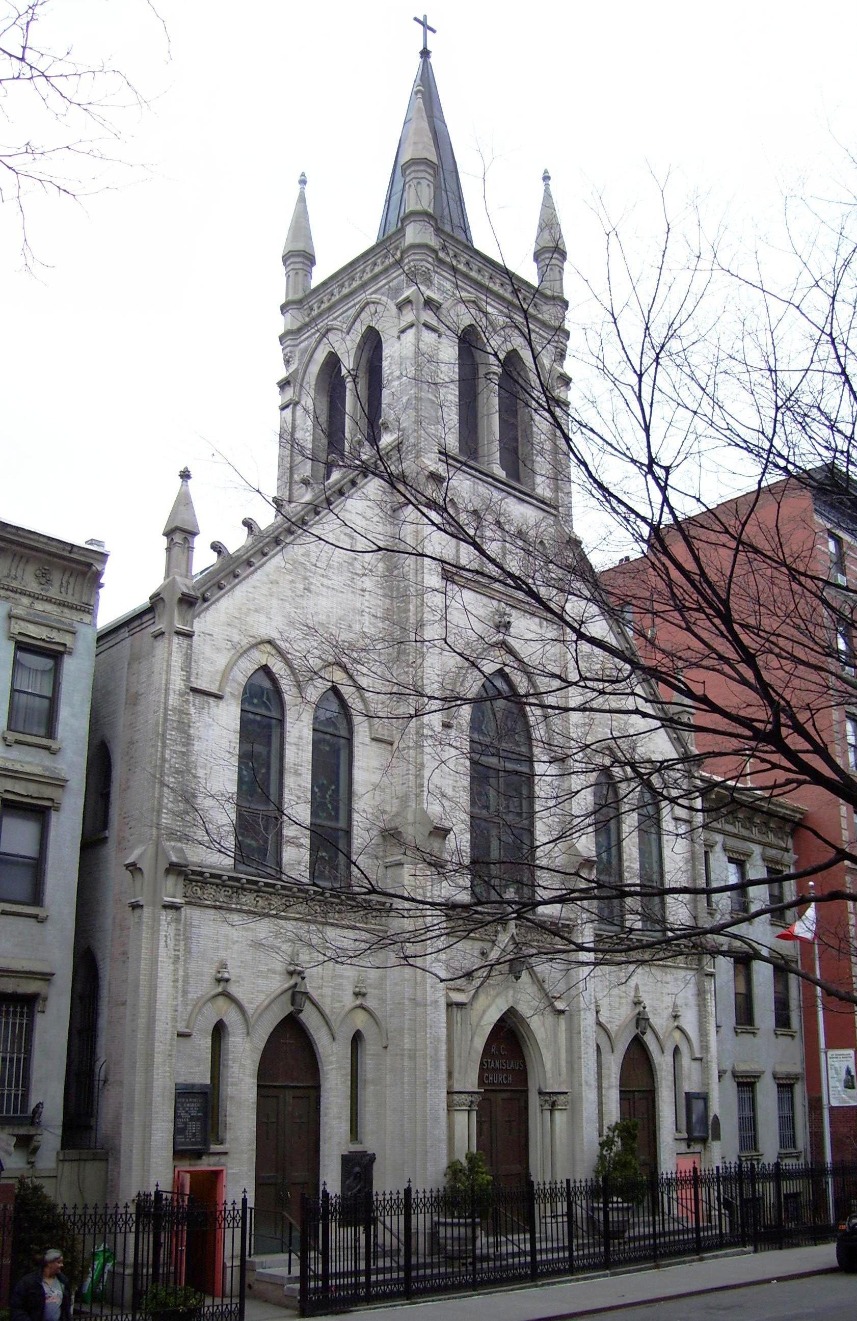 St. Stanislaus Bishop and Martyr Church at 107 East 7th Street between First Avenue and Avenue A in the East Village neighborhood of Manhattan, New York City was built in 1899-1901, and was designed by Arthur Arctander in the Gothic Revival style. The Roman Catholic parish predates the building, starting in 1873, the first Polish Roman Catholic parish in the city. Before its current sanctuary, it occupied the Stanton Street Dutch Reformed Church (1845) which had subsequently been used by Congregation B'nai Israel. The St, Stanislaus Bishop and Martyr Church is located within the East Village/Lower East Side Historic District (Sources: "East Village/Lower East Side Historic District Designation Report" and From Abyssinian to Zion (2004))